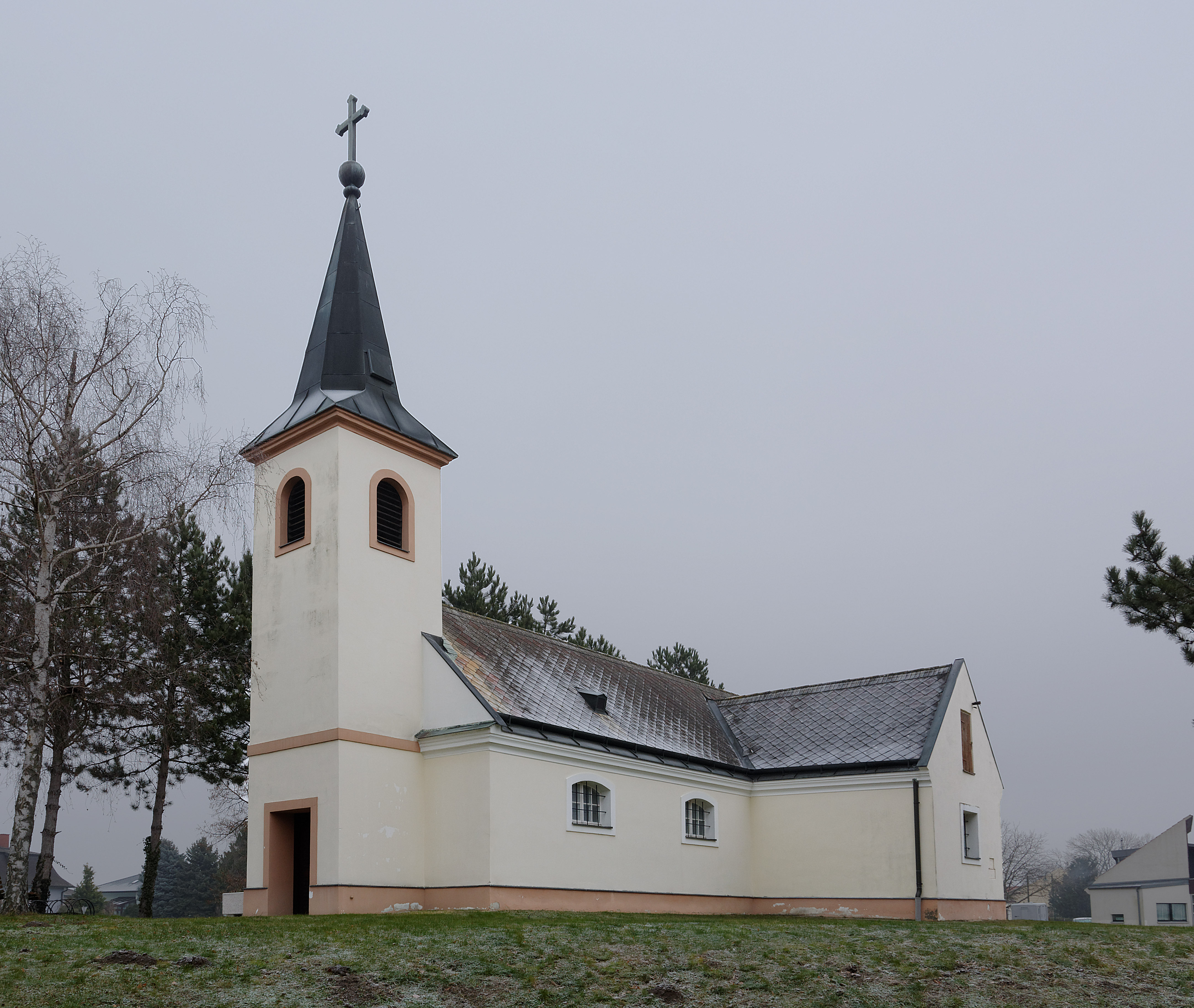 Catholic succursal church in Andlersdorf, Lower Austria, Austria